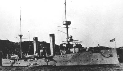 Hai Yung, a Chinese cruiser